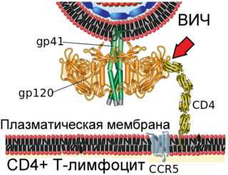 Mechanism of Viral Entry/Membrane Fusion